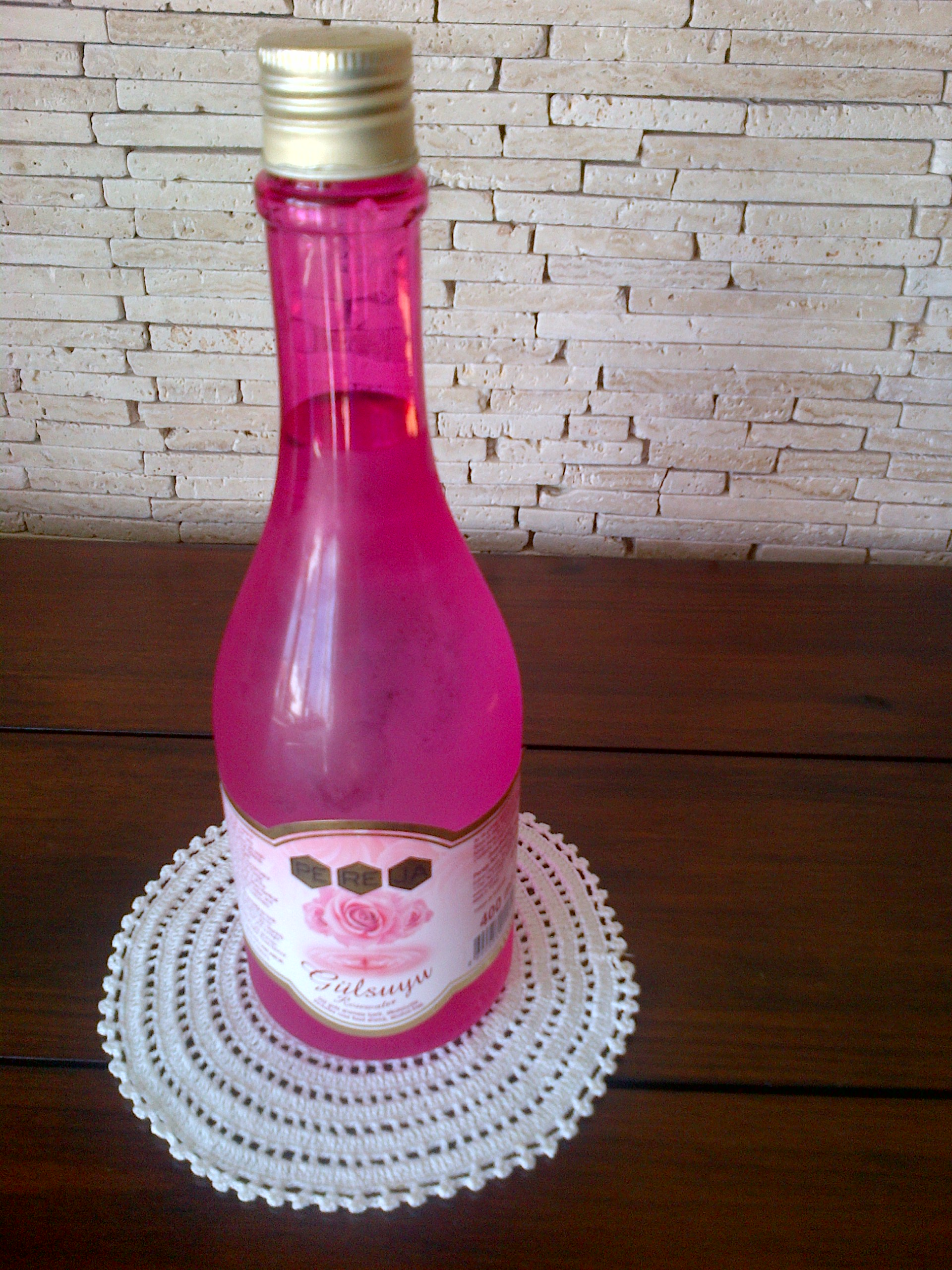 Gülsuyu (rose water / eau de rose) is both a food item (sprinkled over several desserts like güllaç, aşure, etc) and used as an "eau de Cologne", especially during Ramadan or among conservative people, as it does not contain alcohol. (Notice the producer, "Pe Re Ja" is a famous "eau de Cologne" brand in Turkey and not a food producing company.) Please also note that rose petals are used to make juice, liquor and sherbet (Gül suyu, Gül likörü and Gül şerbeti, respectively) in Turkey.